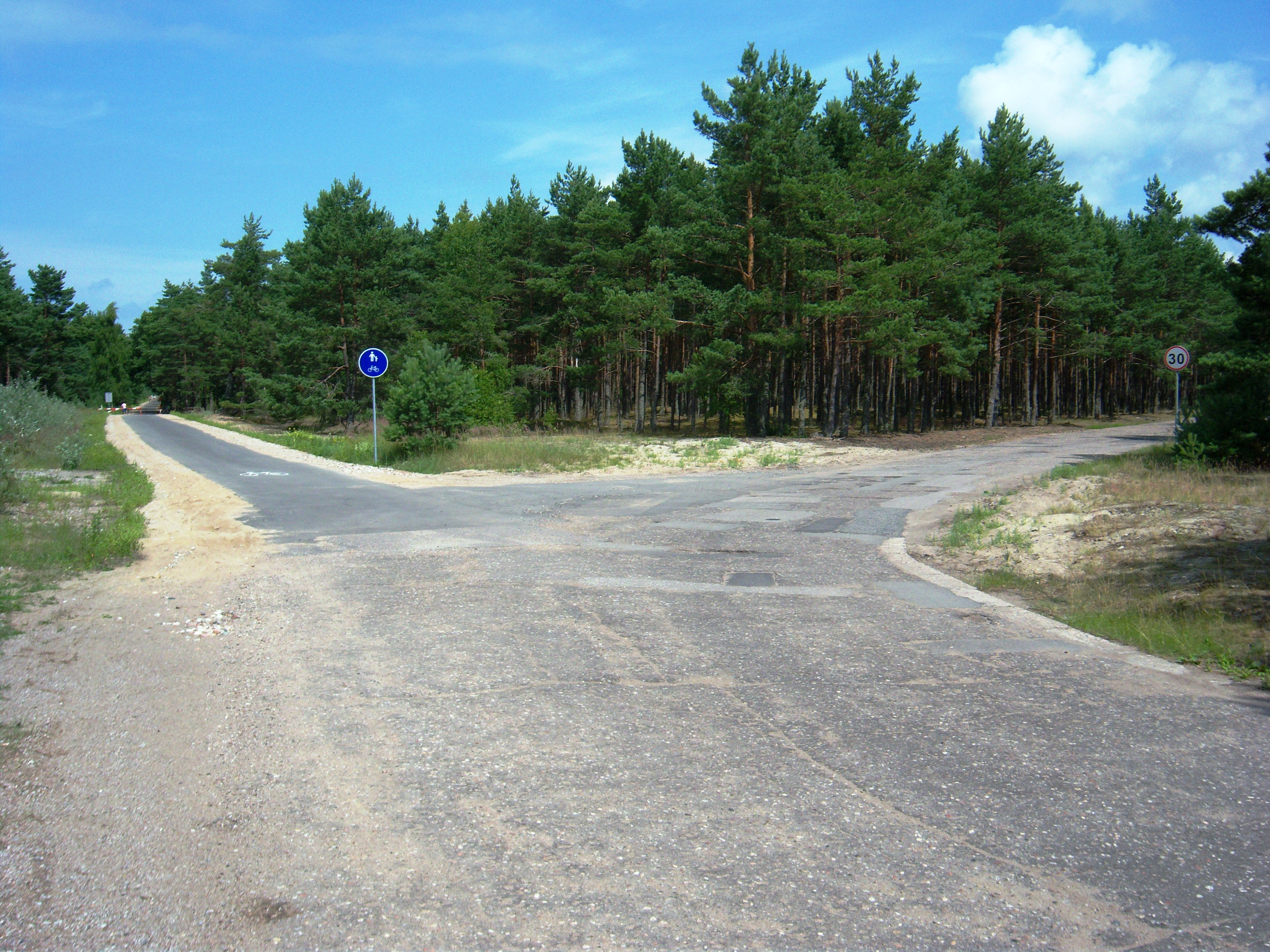 Bikeway by Nida, Lithuania